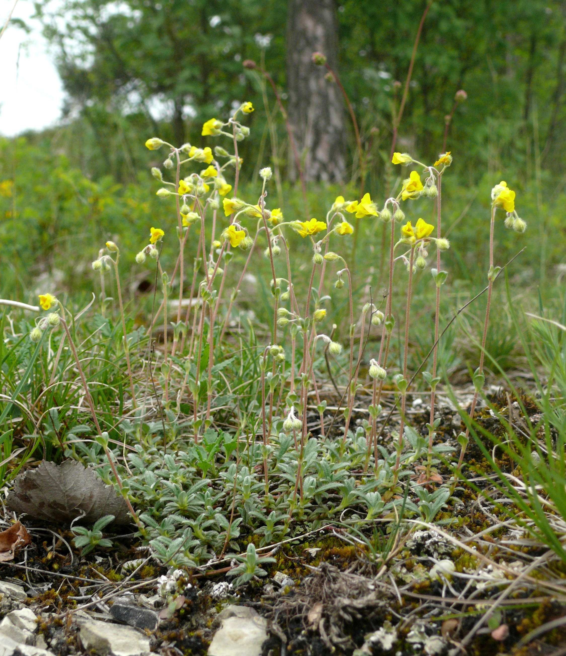 Helianthemum canum, Mainfranken